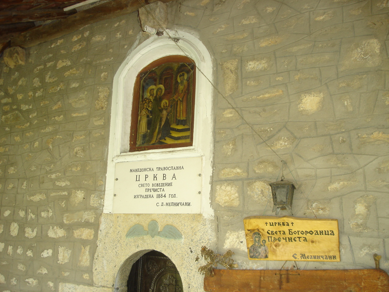 Church in the village of Dolno Melnichani, near Debar, Macedonia